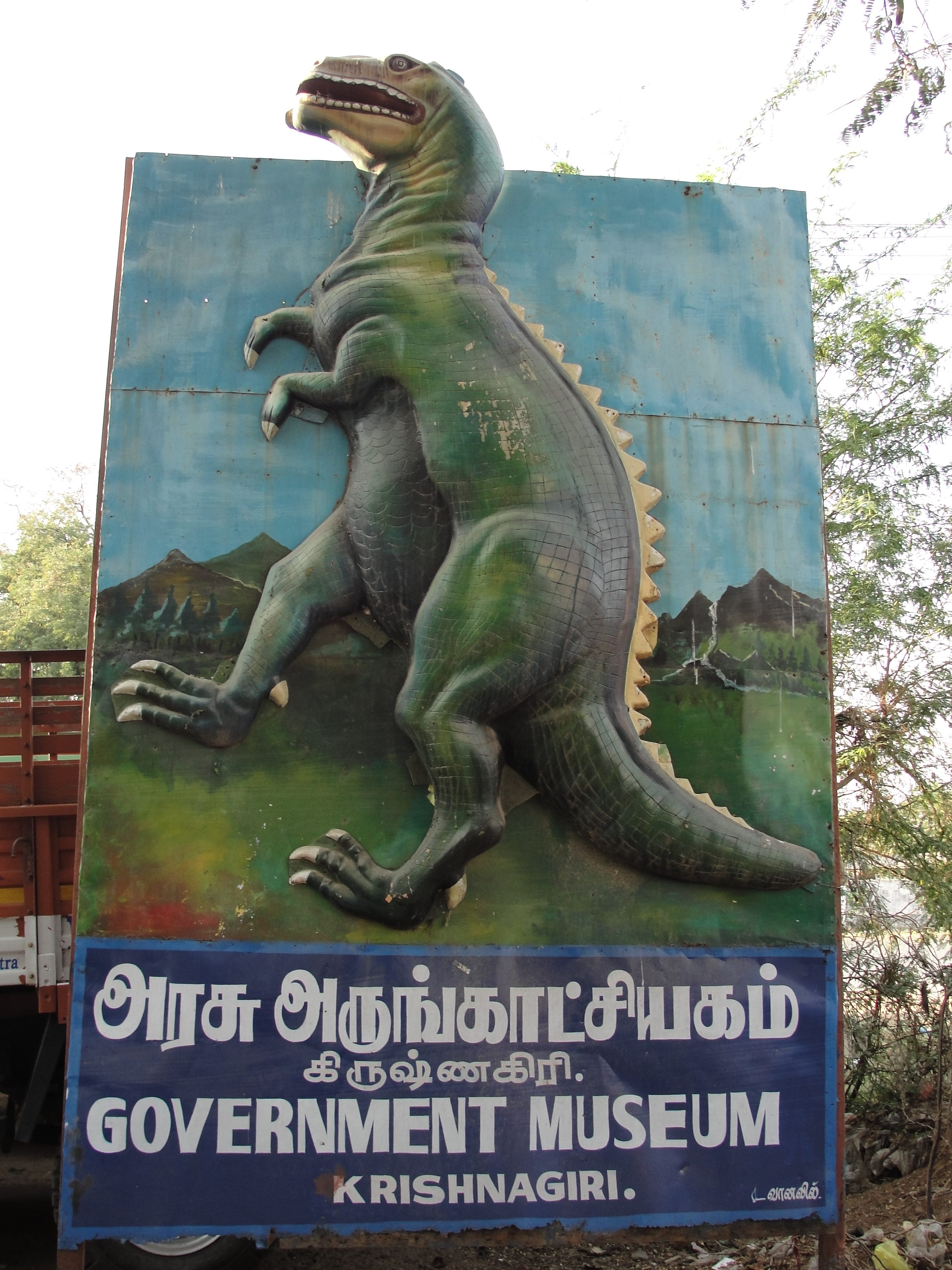 A sign board in Government museum Krishnagiri, Tamil Nadu, India.